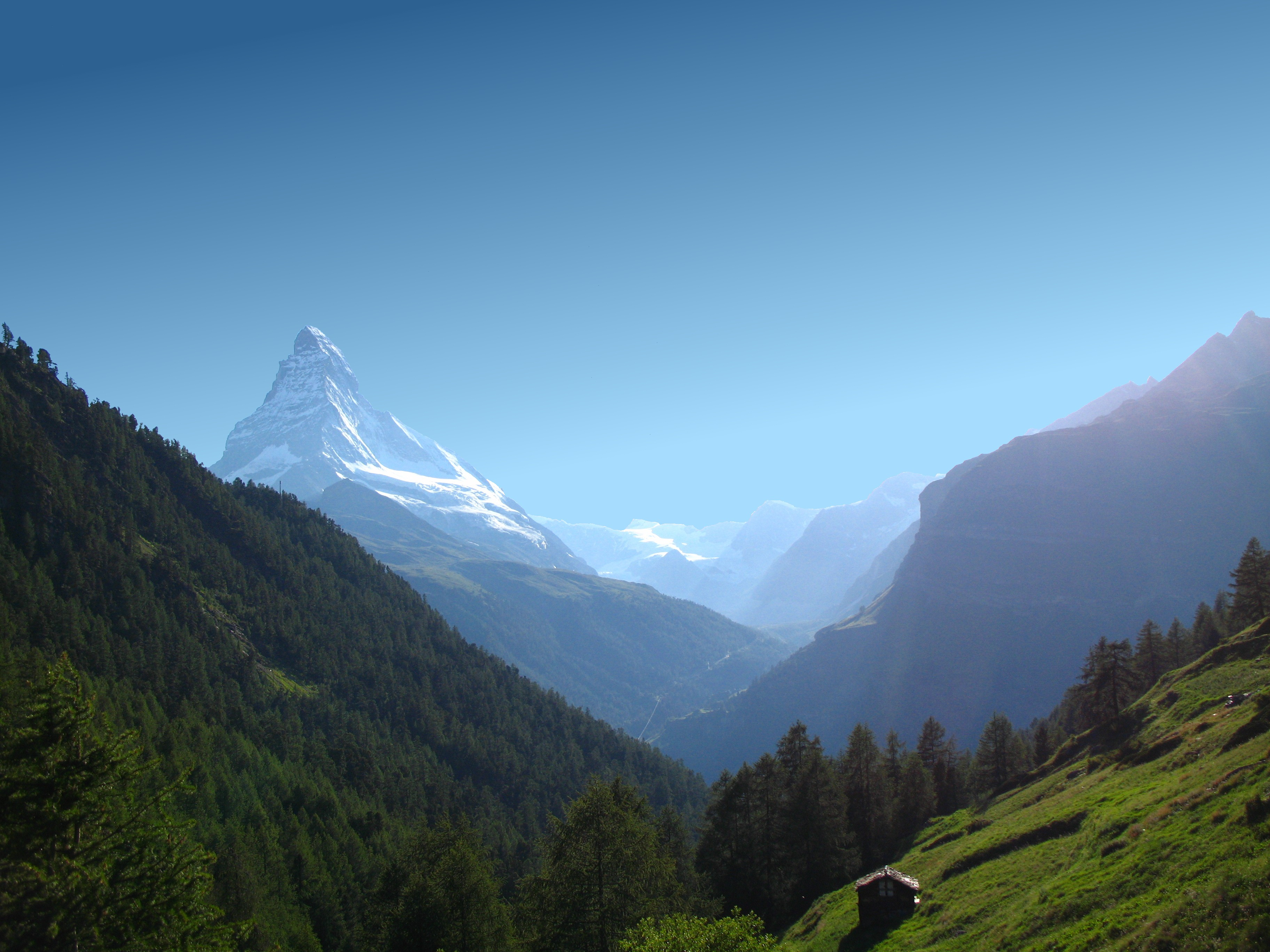 Matterhorn, Zermatt, Switzerland This is a retouched picture, which means that it has been digitally altered from its original version. Modifications: Replaced sky with a two-color shade.